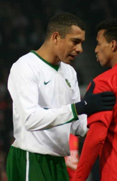 Gilberto Silva edited by user Sportingn from the original picture: File:Gilberto Silva Nani.jpg